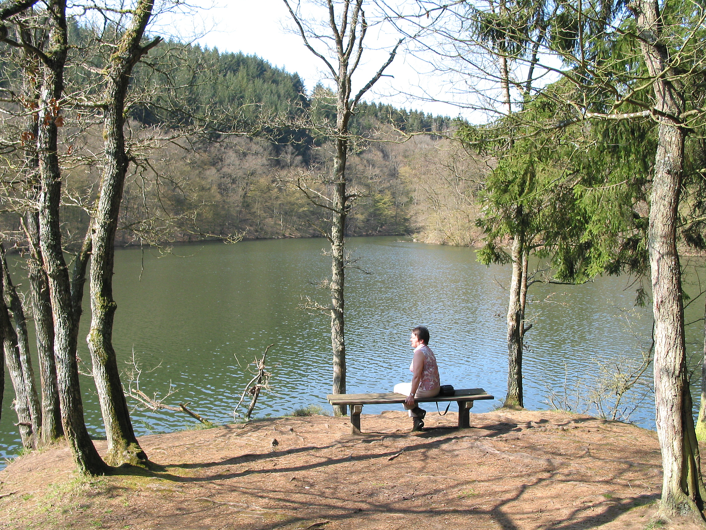 Engreux (Belgium), the confluence of the two Ourthe rivers.